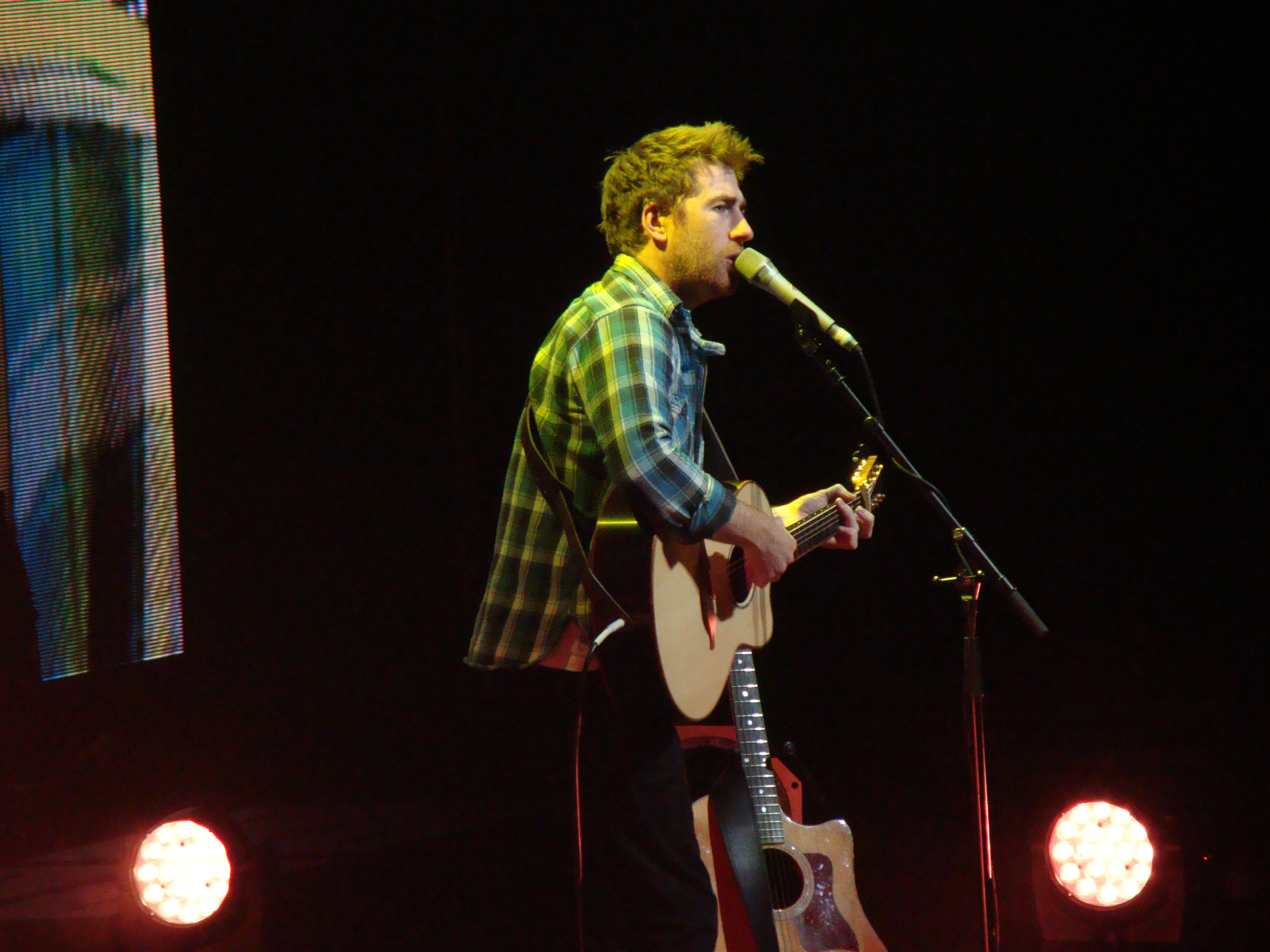 Musician Jamie Lawson performing in Sheffield, United Kingdom on October 30, 2015.